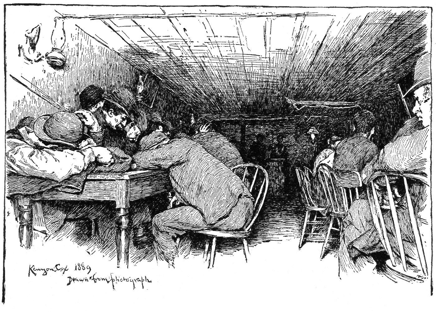 An all-night two-cent restaurant, in "The Bend", page 75